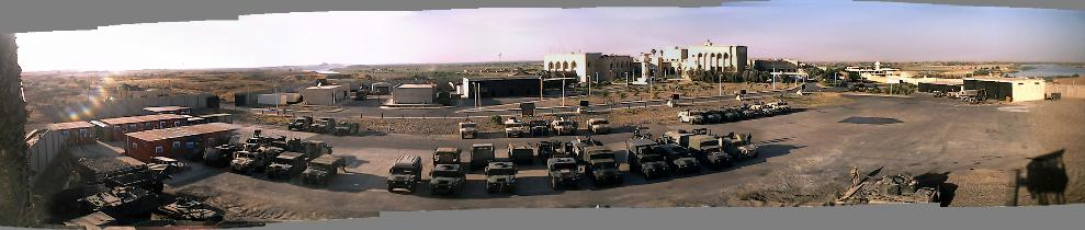 Panoramic taken from Observation Post 3 of FOB Dagger, Tikrit, Iraq in 2004.